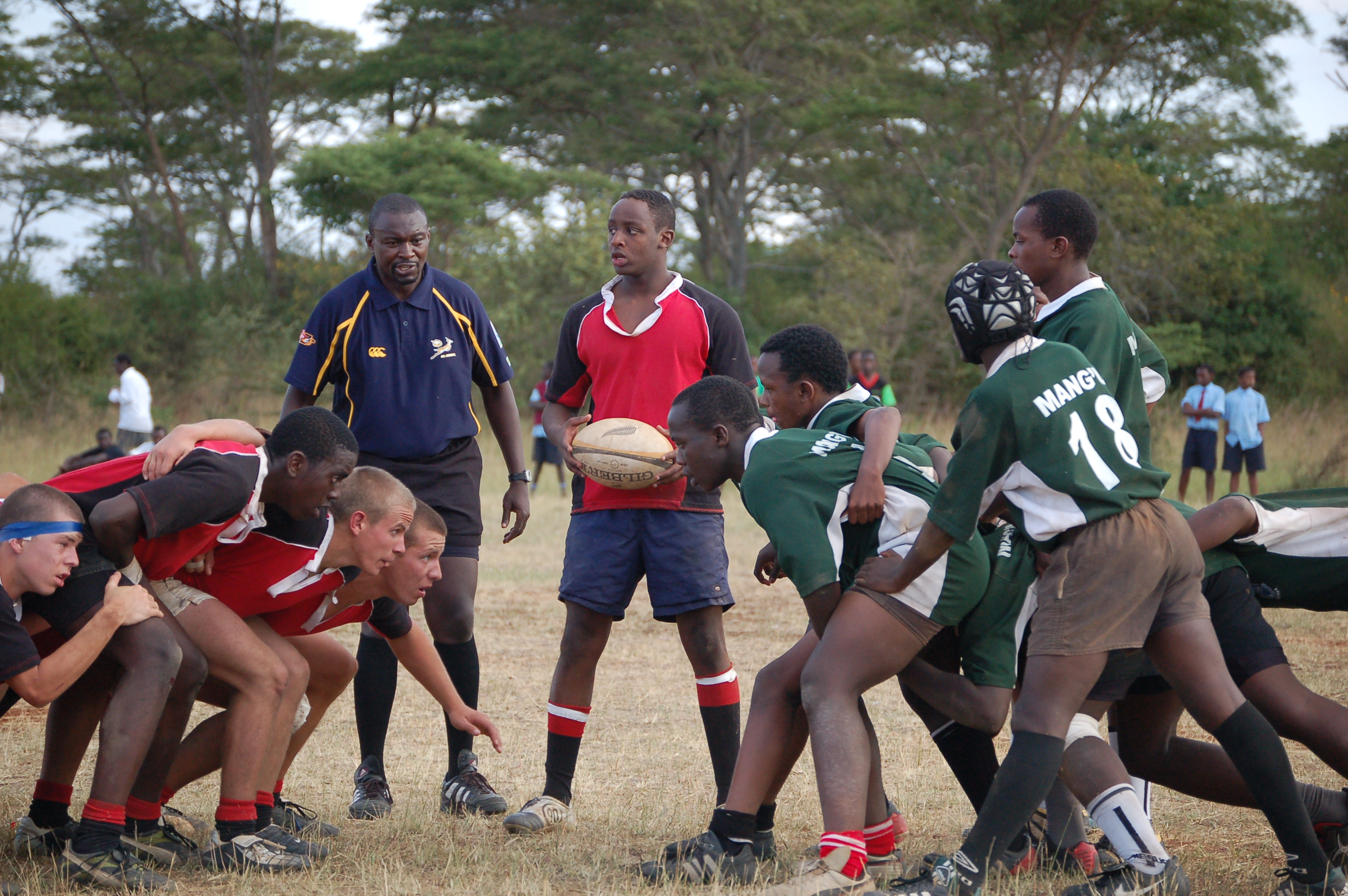 RVA (7) vs Mangu (12) A last minute try by Mangu put them through for a win. RVA still leads the Prescott Cup in points, with a game next week against St. Mary's.